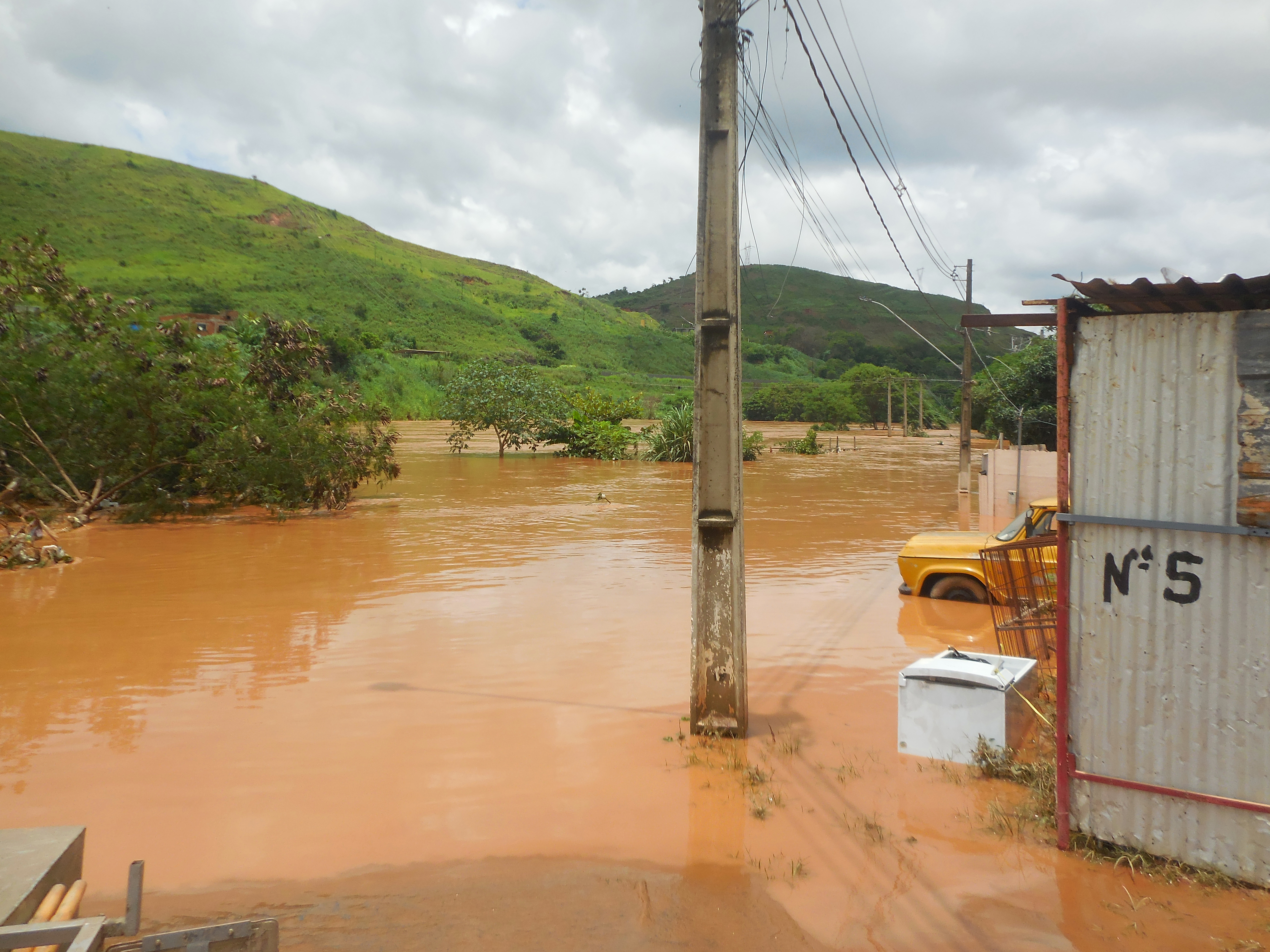 Flood of the Piracicaba River in Prainha, a slum of Coronel Fabriciano, Minas Gerais, Brazil.